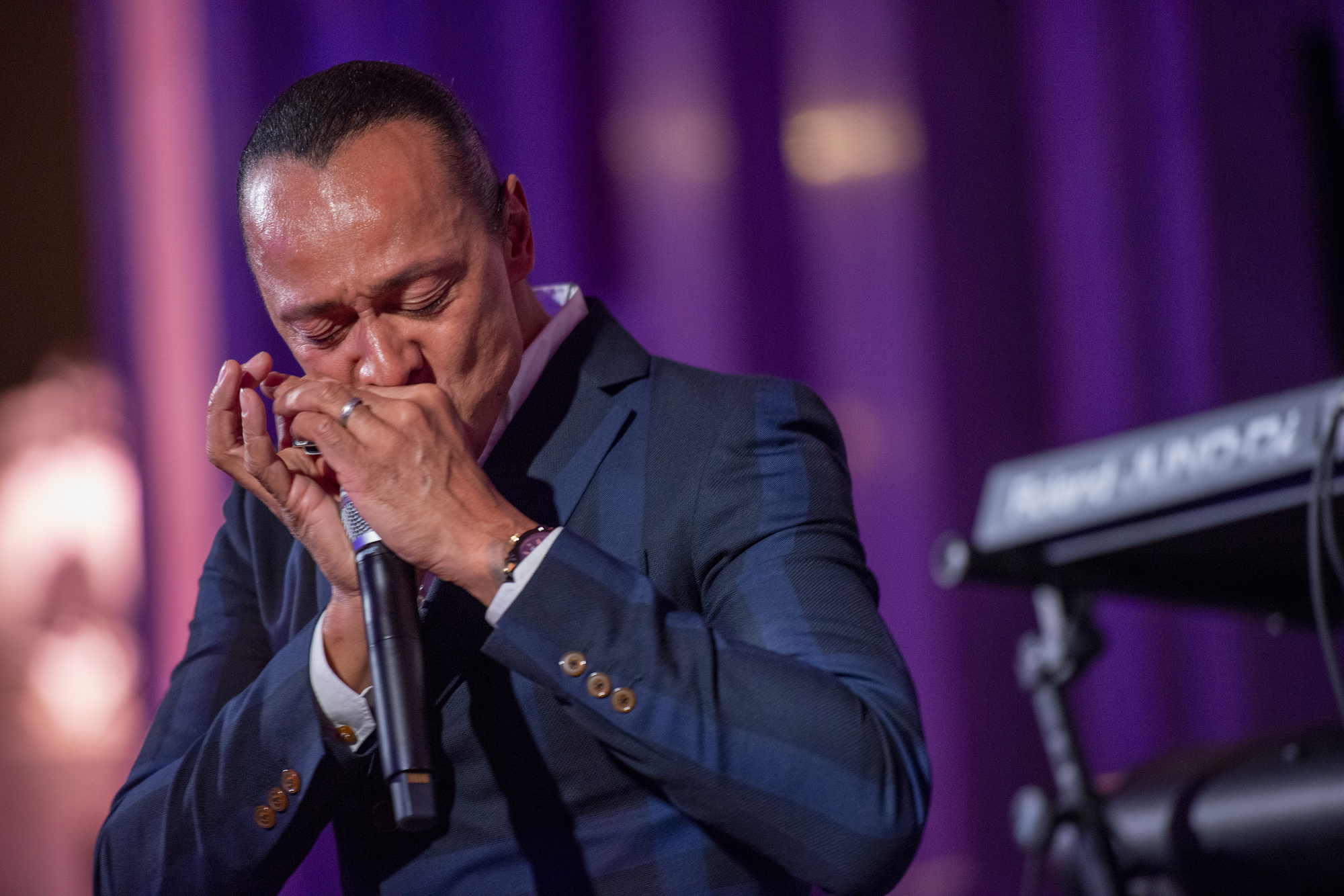 Harmonica virtuoso Frédéric Yonnet performs at a tribute to U.S. Supreme Court Justice Ruth Bader Ginsburg at the Library of Congress in Washington, D.C. on Jan. 30, 2020.